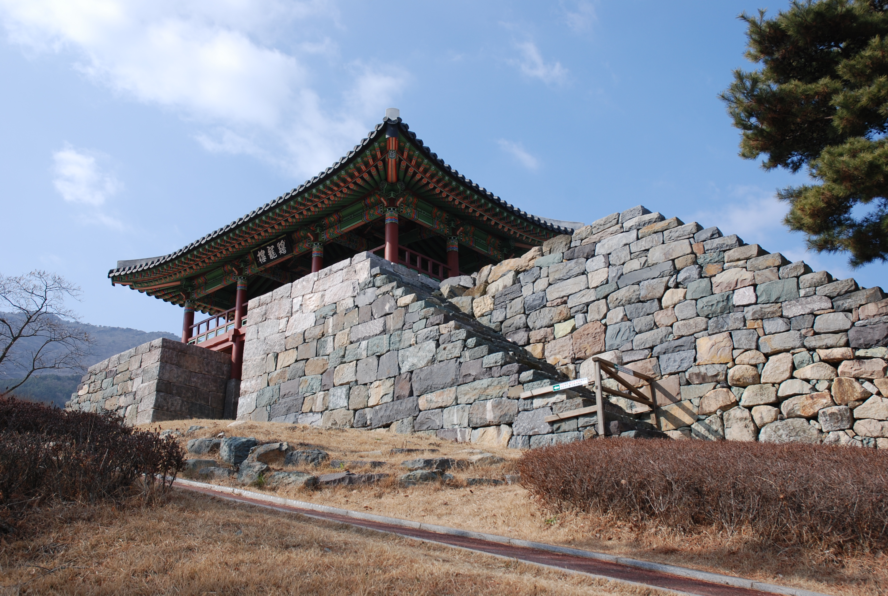 Geoje Gohyun Castle, Gyeongsangnam-do, Korea